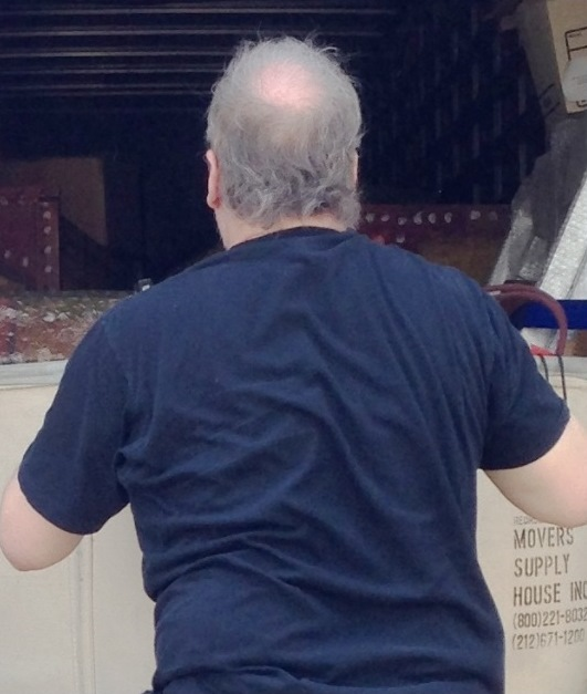 The back of a middle-aged American man's head, showing typical male pattern baldness, 4 years and 10 months after File:Back of man's head.jpg